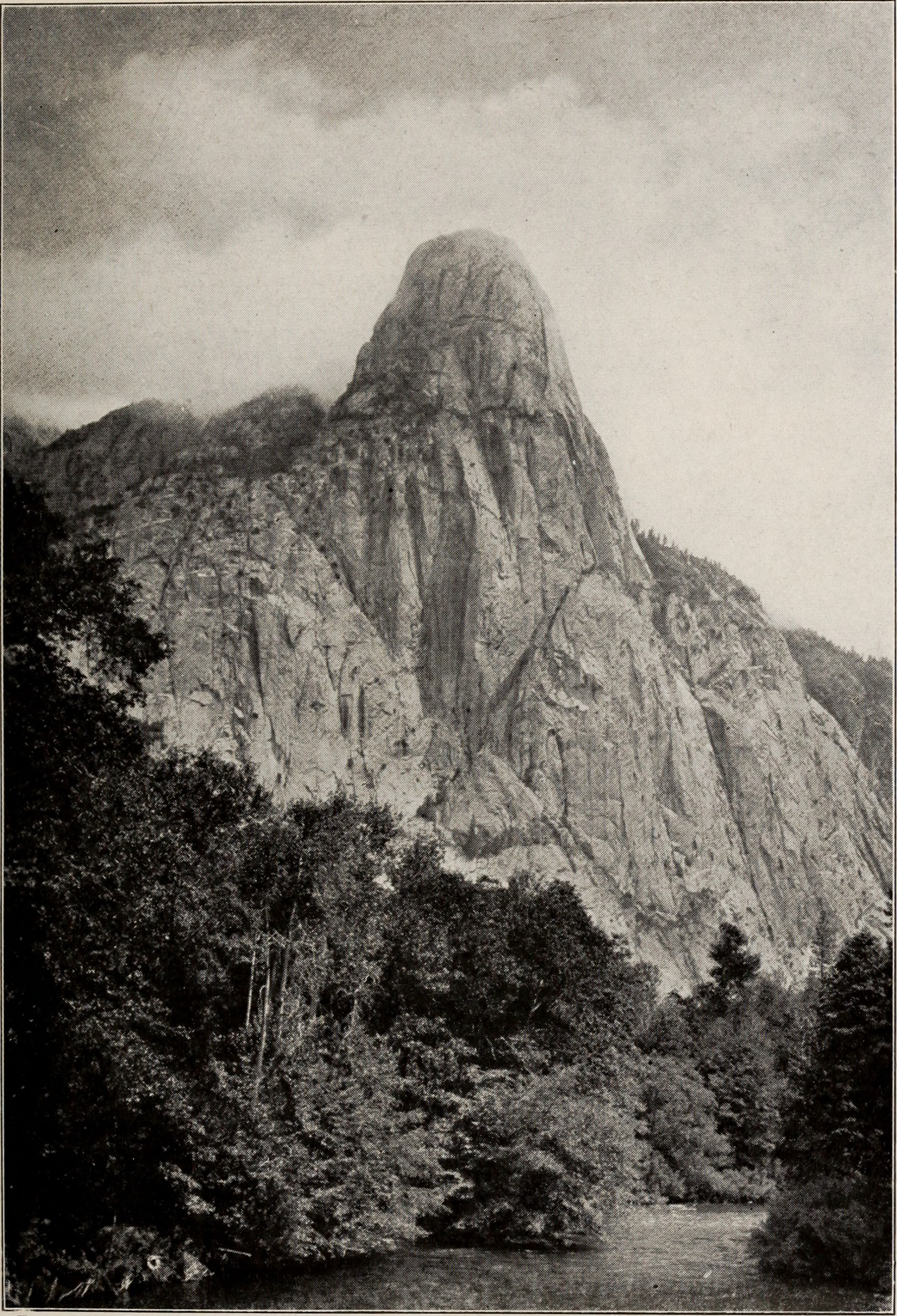 Tehipite Dome, towering above Tehipite Valley in what is now Kings Canyon National Park. Title: The book of the national parks Year: 1920 (1920s) Authors: Yard, Robert Sterling, 1861-1945 Subjects: National parks and reserves Publisher: New York : Charles Scribner's Sons